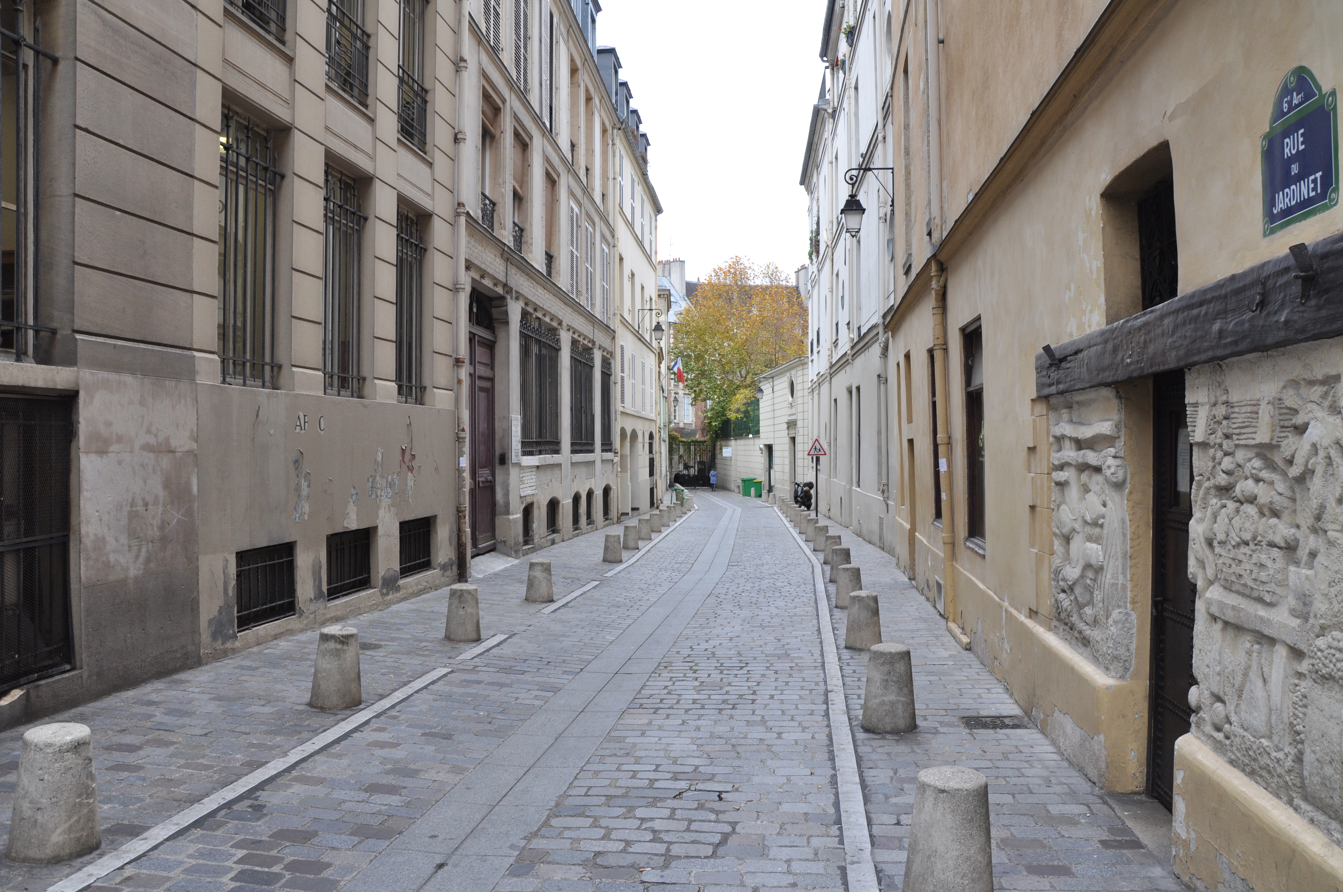 Street in Paris, near "Carrefour de l'Odéon", towards "Cour de Rohan".